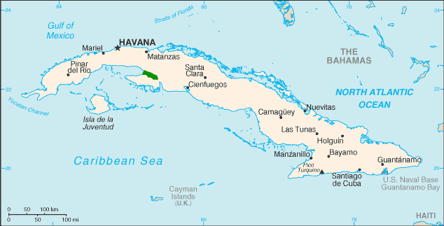 Range map of Zapata Rail Source data from Raffaele, Herbert A; Wiley, James; Garrido, Orlando H; Keith, Allan R; Raffaele, Janis I (2003) Field Guide to the Birds of the West Indies, Christopher Helm, pp. 58 ISBN: 0713654198. and Zapata Rail – BirdLife Species Factsheet. BirdLife International. Mapped on CIA map